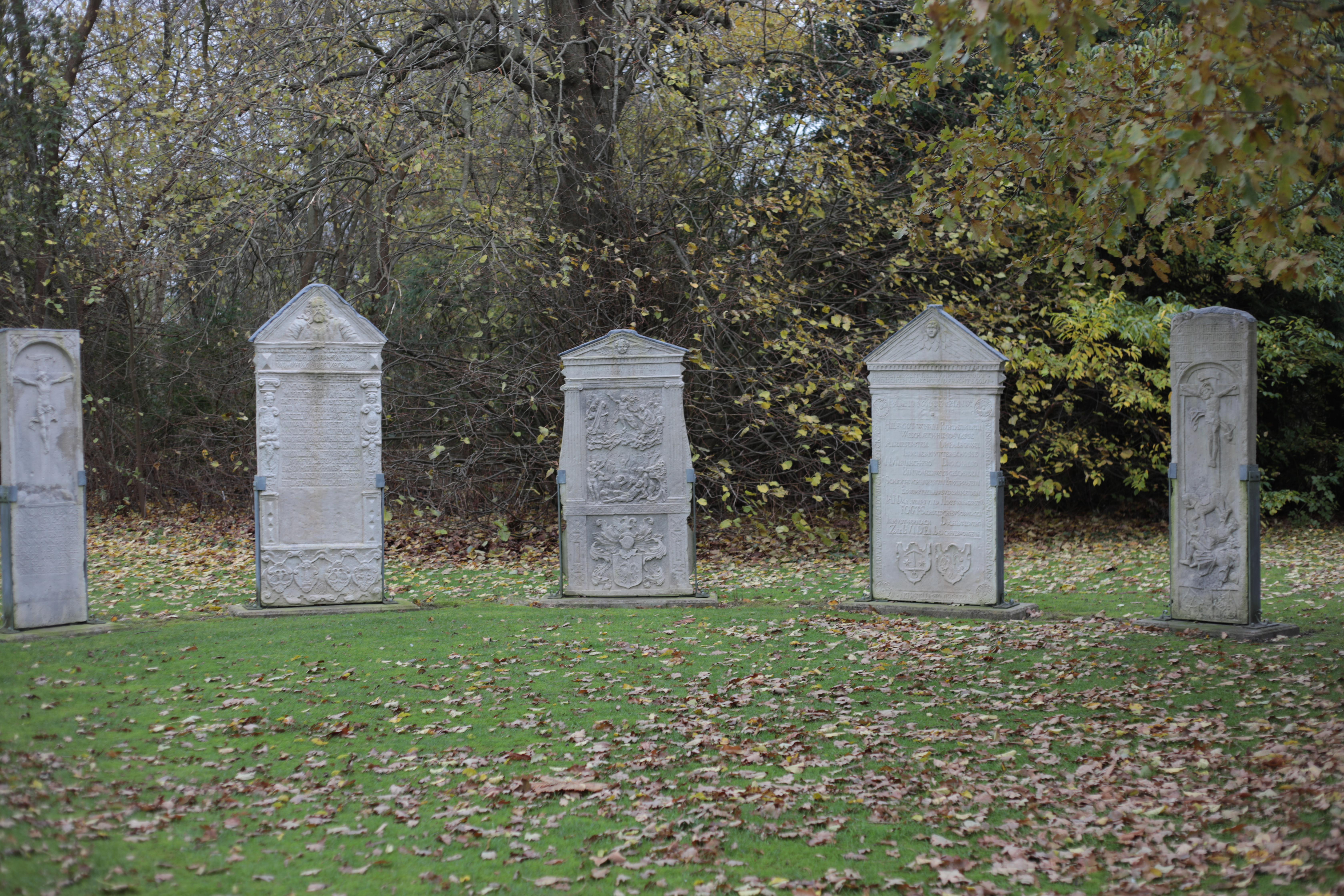 Gravestones at the cemetery in Lunden.